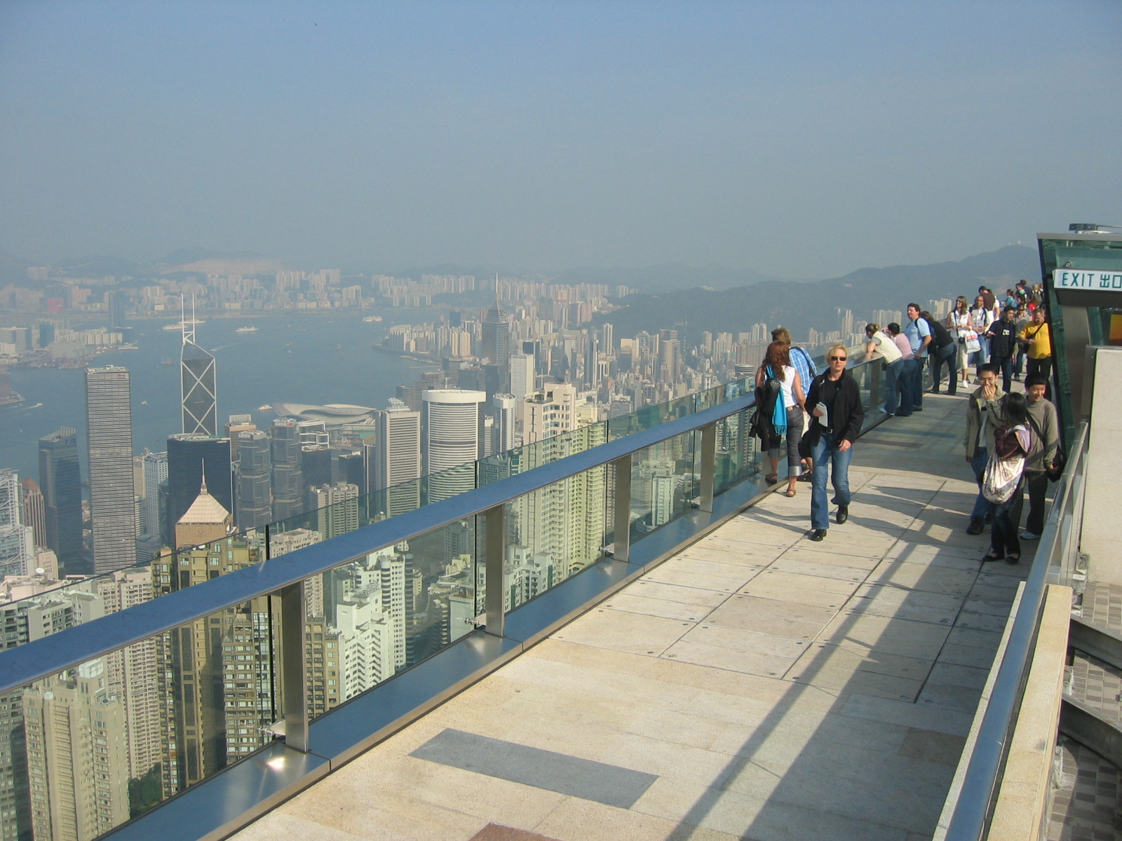 The Peak Tower Viewing Terrace